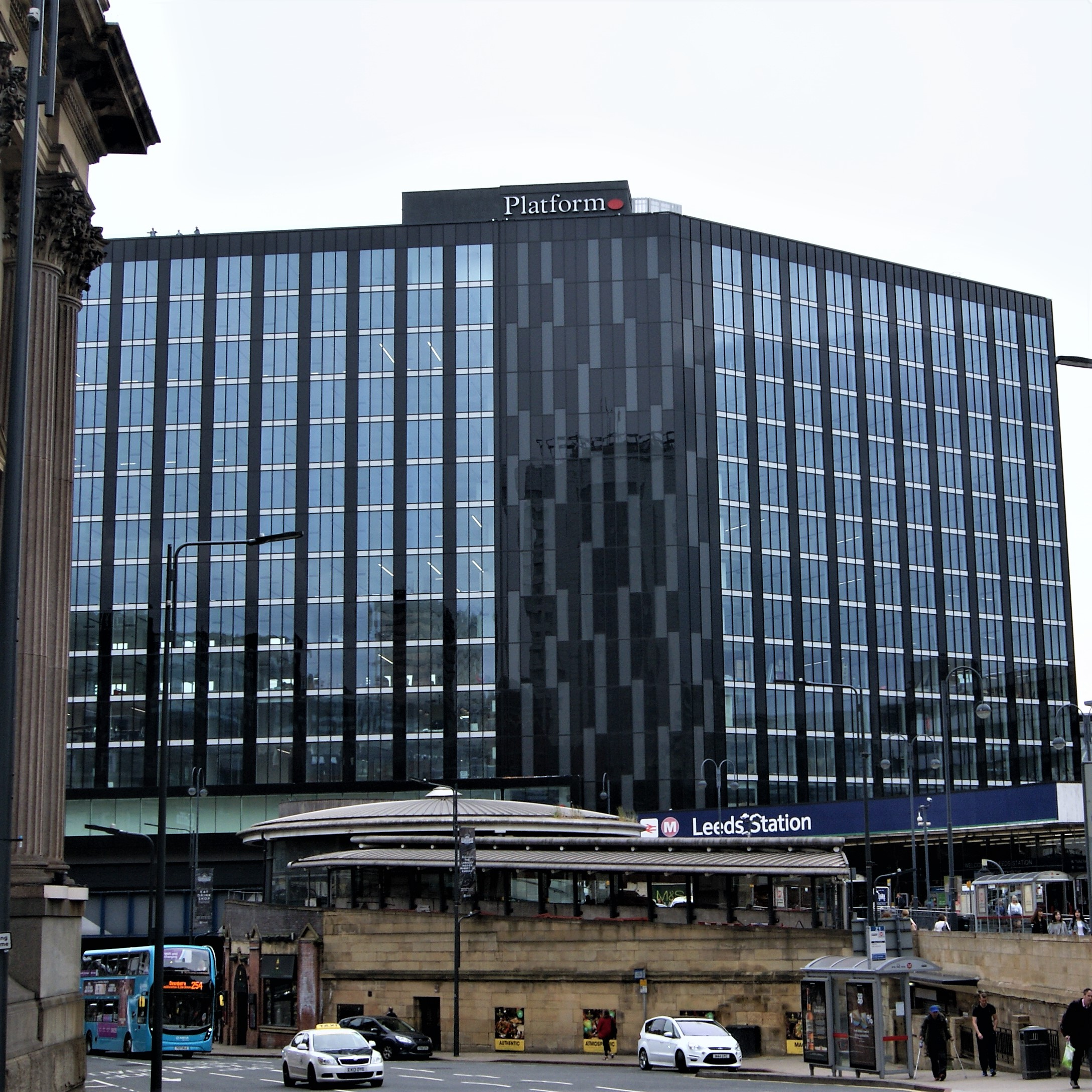 Platform, Leeds, United Kingdom